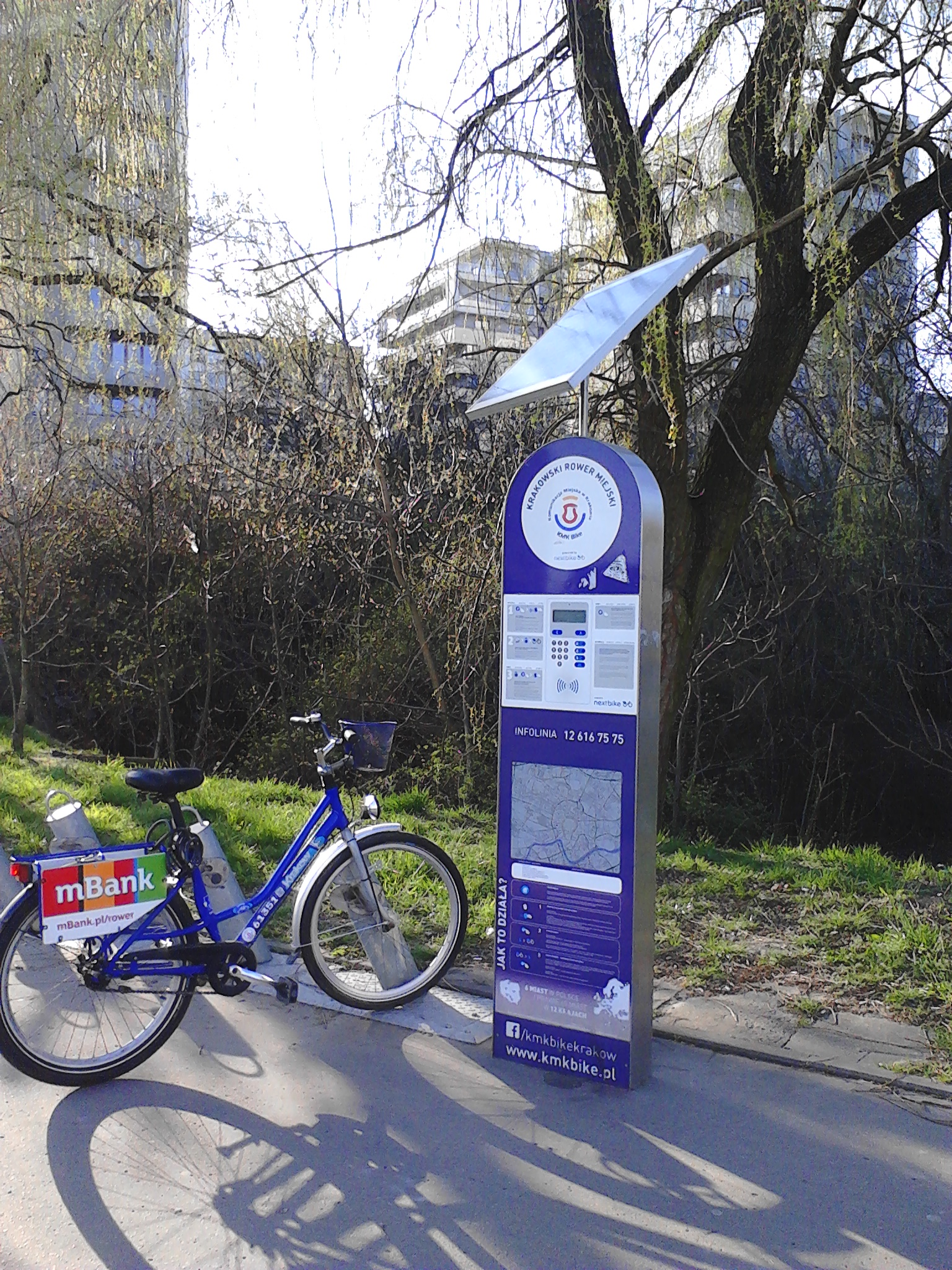 kmk bike terminal